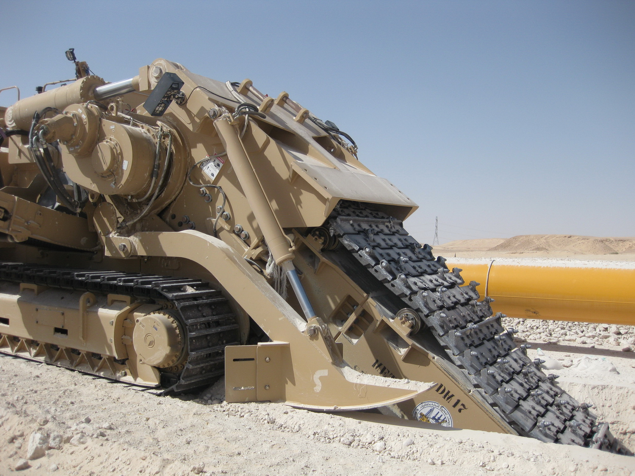 Tesmec trencher